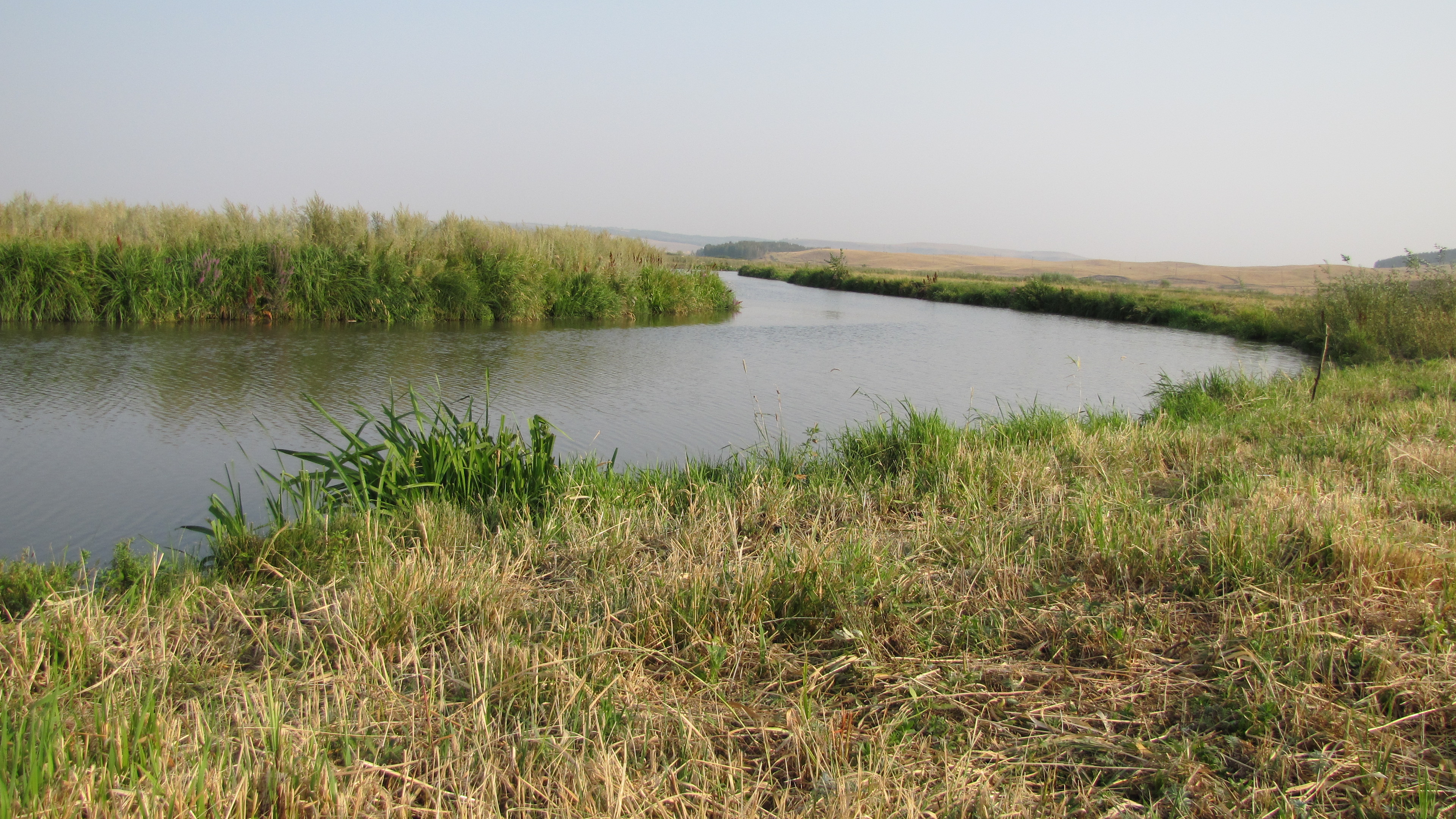 Oxbows of Usen.